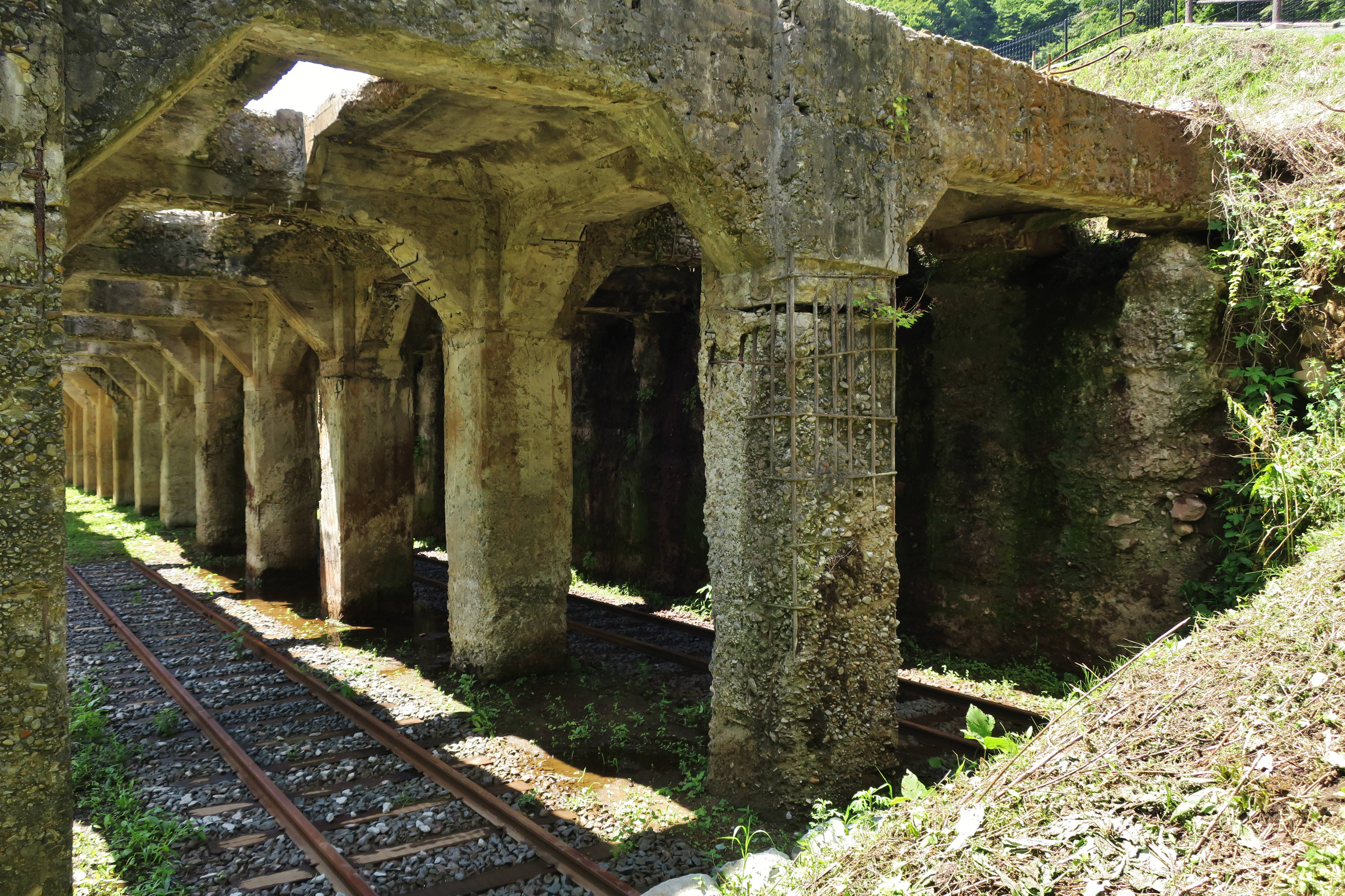 Ōshi Station.